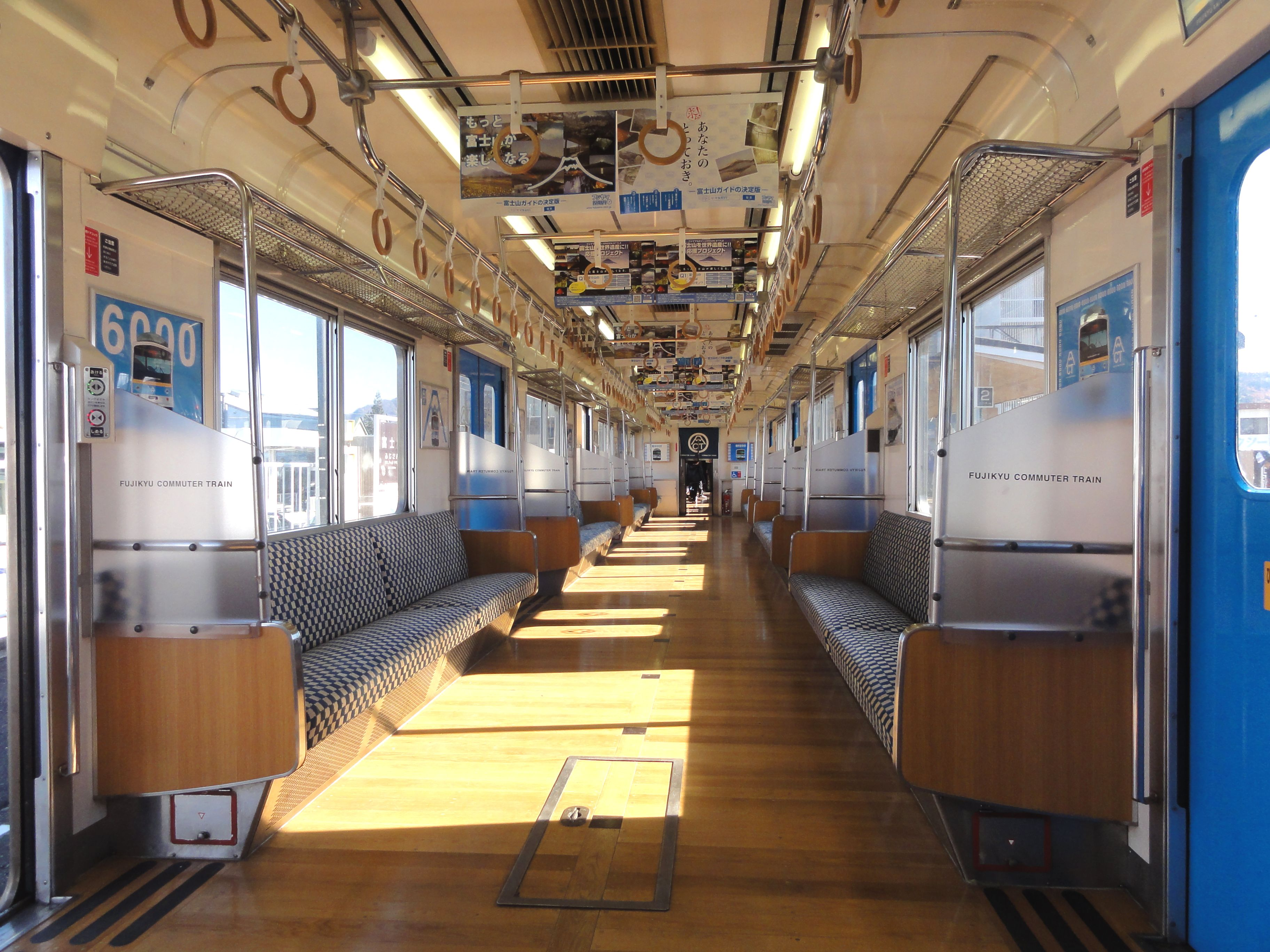 Interior of a Fujikyu 6000 series EMU